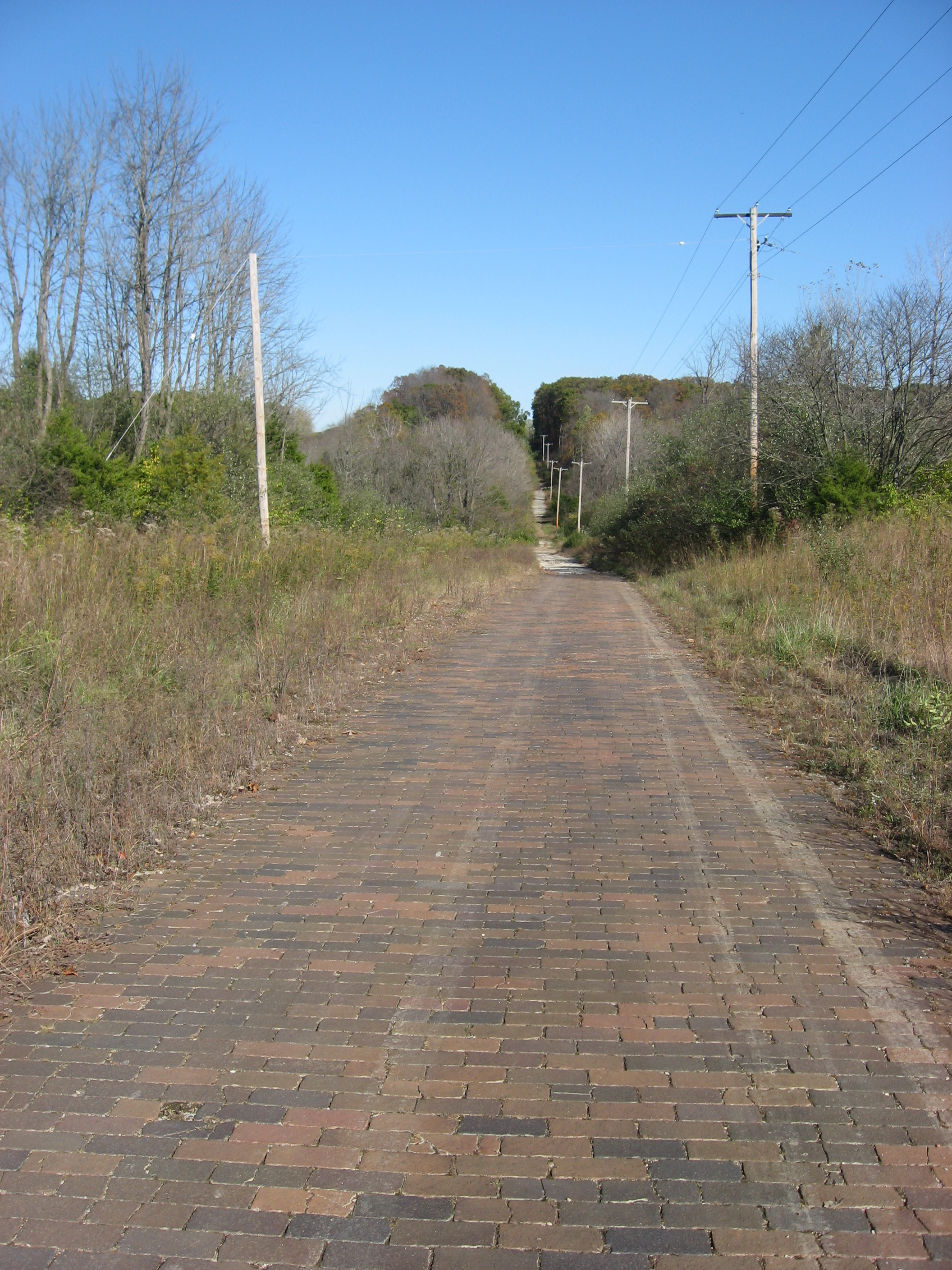 Looking eastward along the old National Road (formerly U.S. Route 40), slightly more than 1 mile east of Clark Center in Auburn Township, Clark County, Illinois, United States.